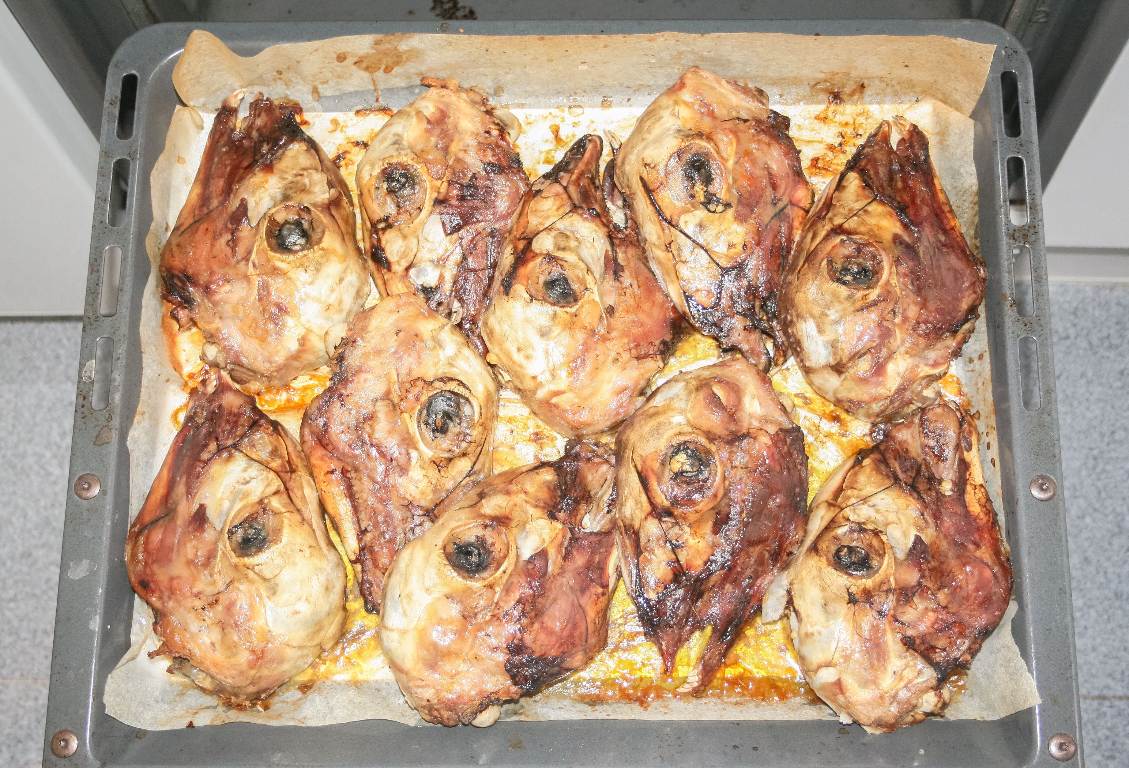 Baked sheep head, Cuisine of Barcelona, Spain